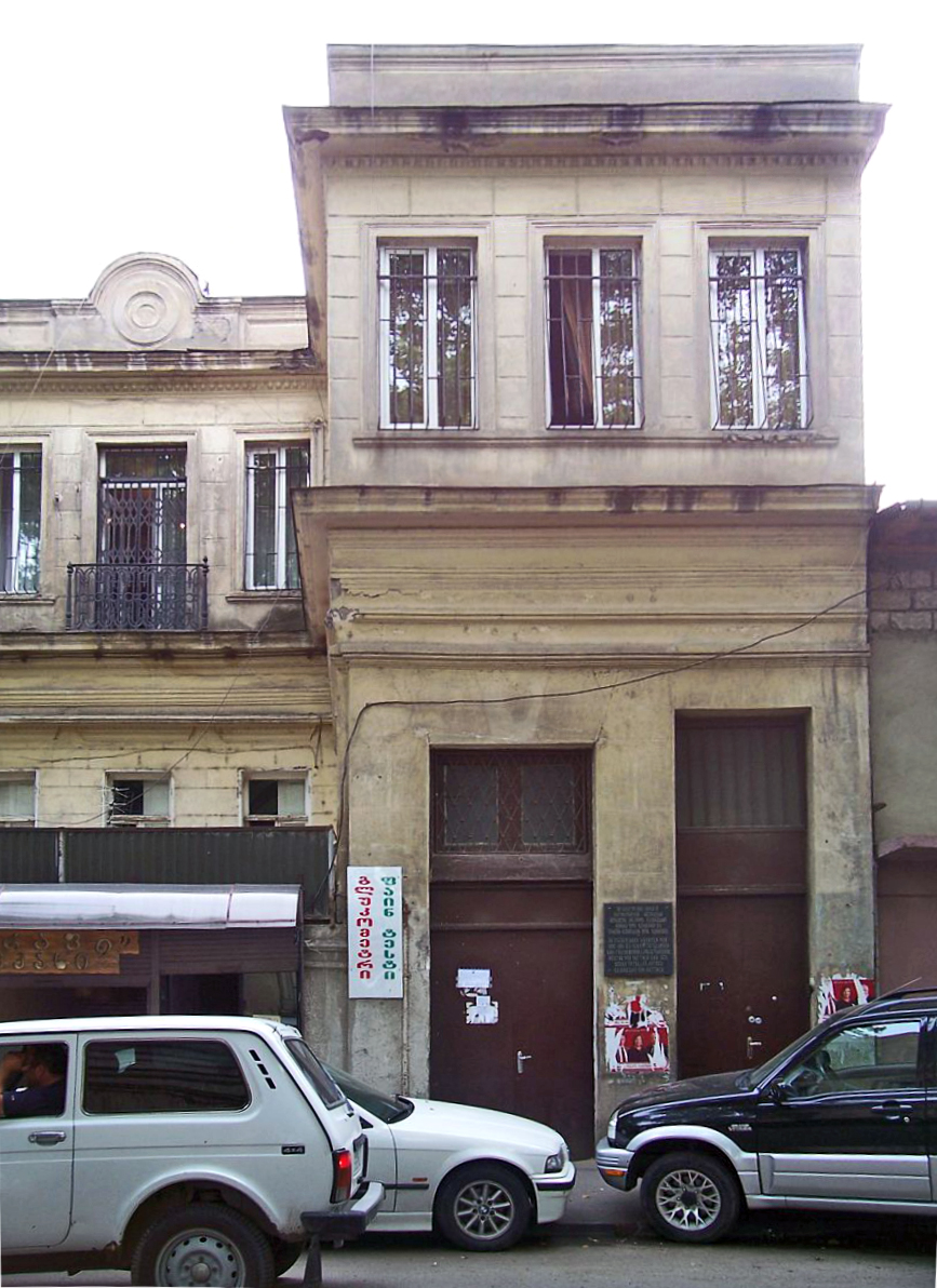 Suttner's living house in Usnadzis qucha in Tbilisi (Georgia)